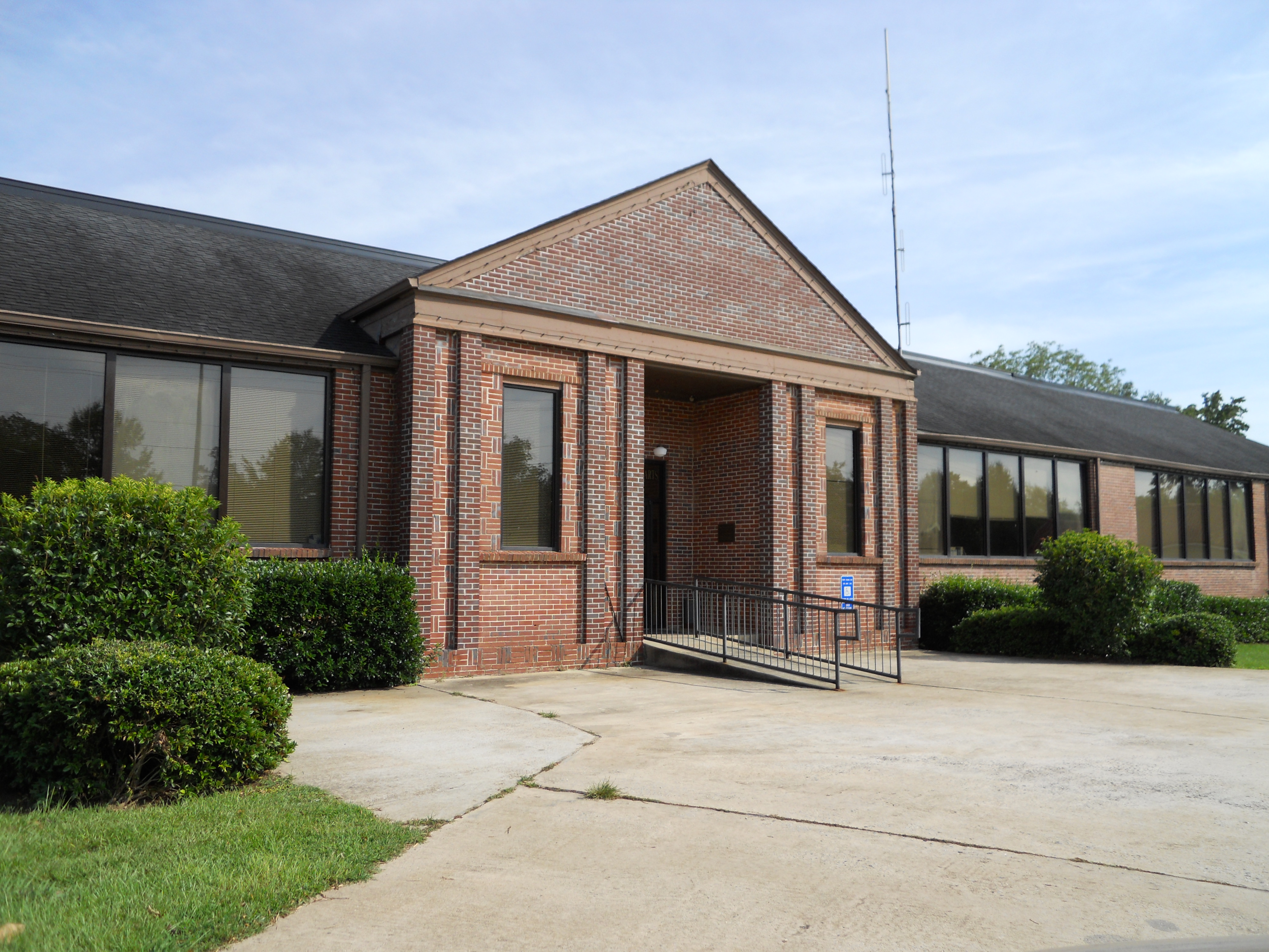 This is a photograph of the Government and Arts building in Waverly Hall, Georgia.